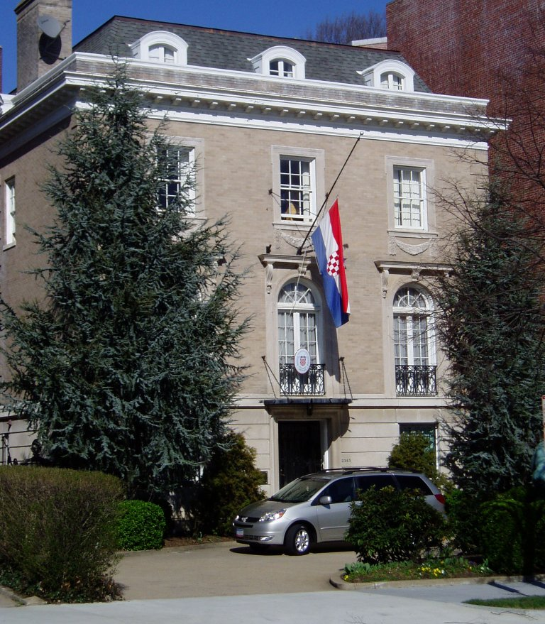 Embassy of Croatia in Washington, D.C.